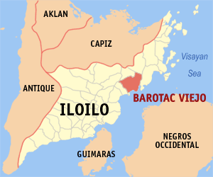 Map of Iloilo showing the location of Viejo